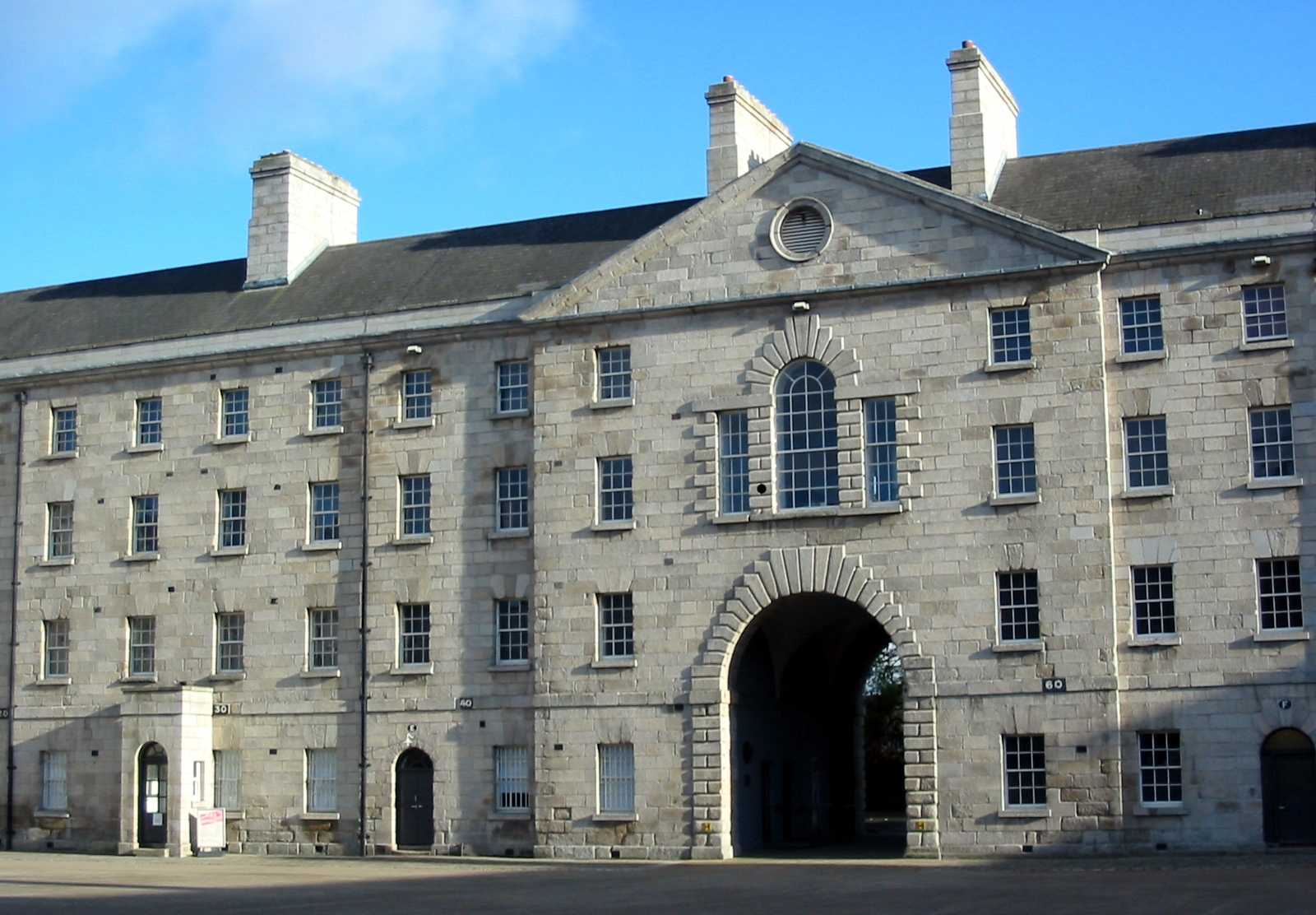 Collins Barracks, now the National Museum of Ireland.